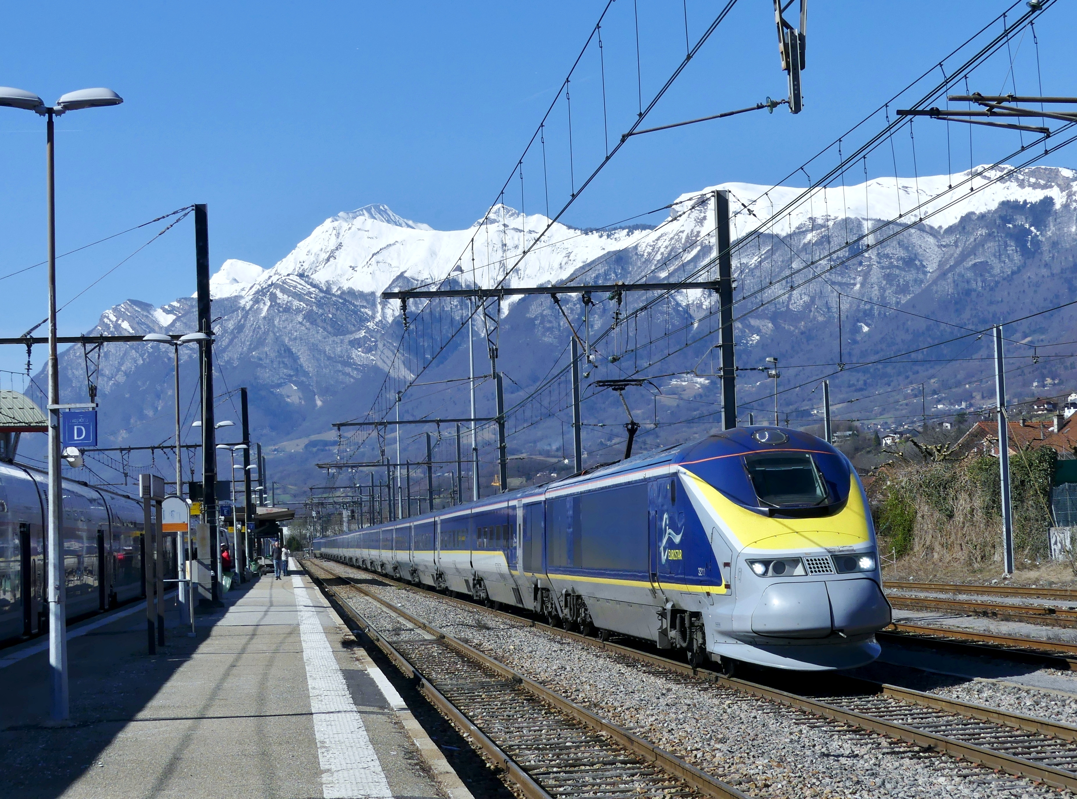 Sight of a Eurostar high speed train, on winter service n°9095 from Bourg-Saint-Maurice (in the French Alps) to London, arriving at Albertville in Savoie.